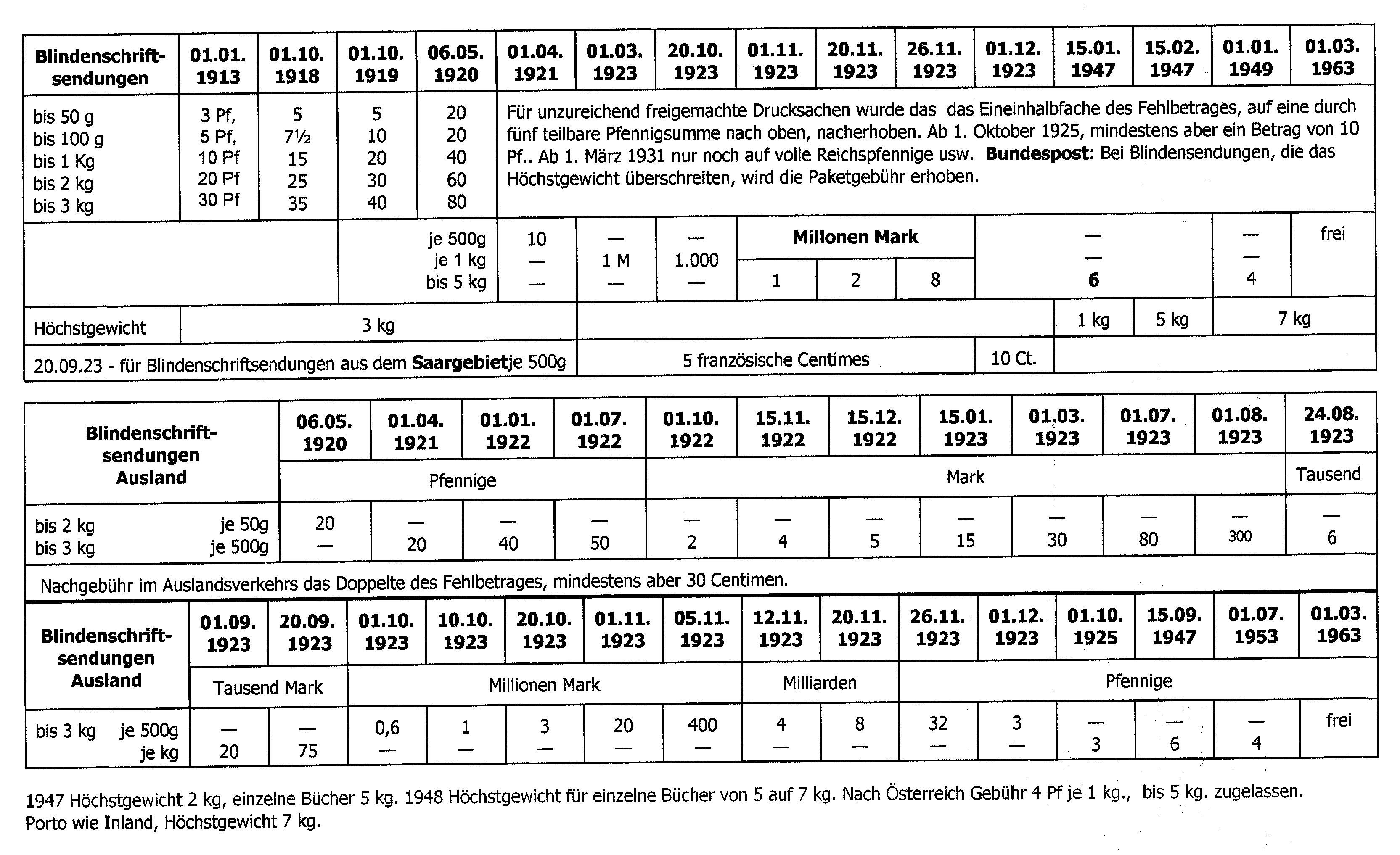 Rates for cecogrammes, Germany, 1913-1963